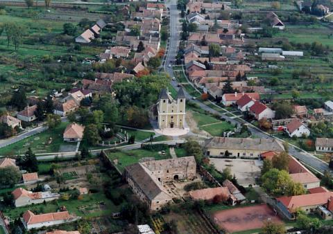 Fertőszéplak, Hungary, aerialphotography This is a photo of a monument in Hungary, Identifier: 4128 This is a photo of a monument in Hungary, Identifier: 4132 This is a photo of a monument in Hungary, Identifier: 4136